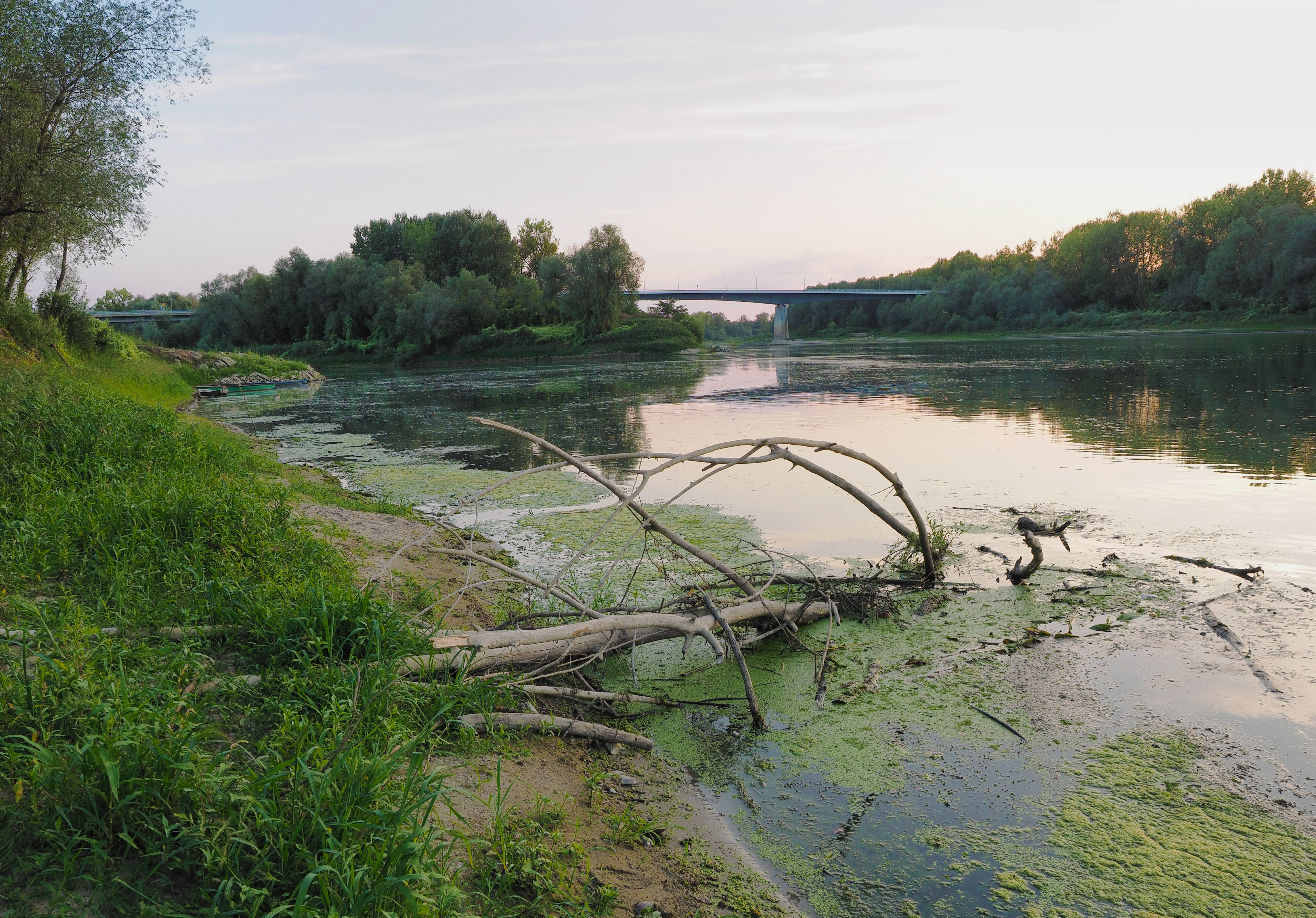 River Una (left side) at river mouth with Sava river (right side) at Donja Gradina (Republika Srpska). Border bridge is visible (left Republika Srpska - Croatia on right side) Српски (ћирилица): Ушће реке Уне (лево) код Доње Градине у реку Саву (десно). У даљини је видан гранићни мост Република Српска - Хрватска Парк природе Ријека Уна, Костајница, К.Дубица, Нови Град ID добра: PPP035 This image was uploaded as part of Trace of Soul 2017. This photograph was taken with an Olympus E-M1